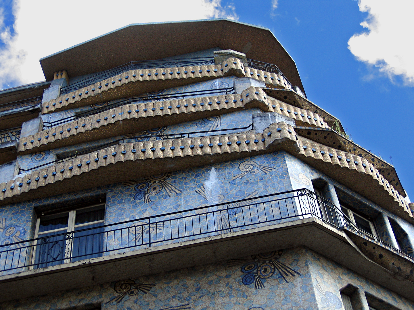 Maison Bleue in Angers, France